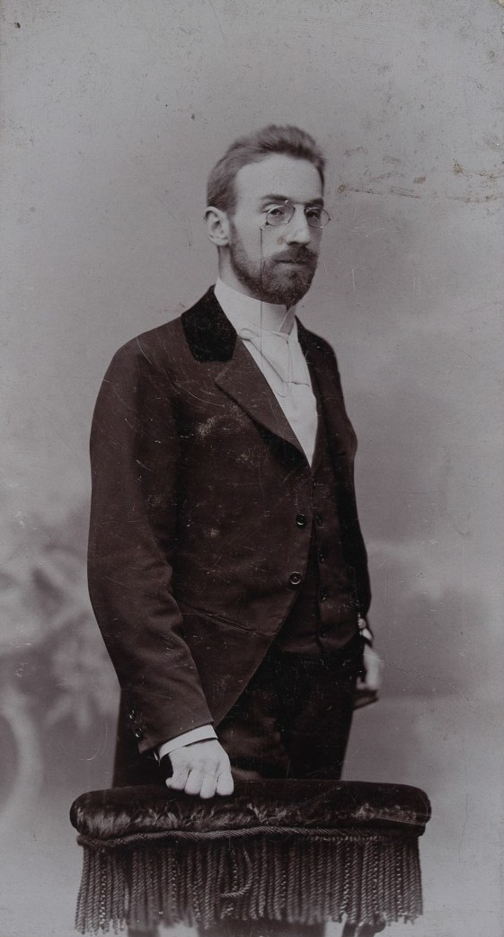 Ignacy Dąbrowski